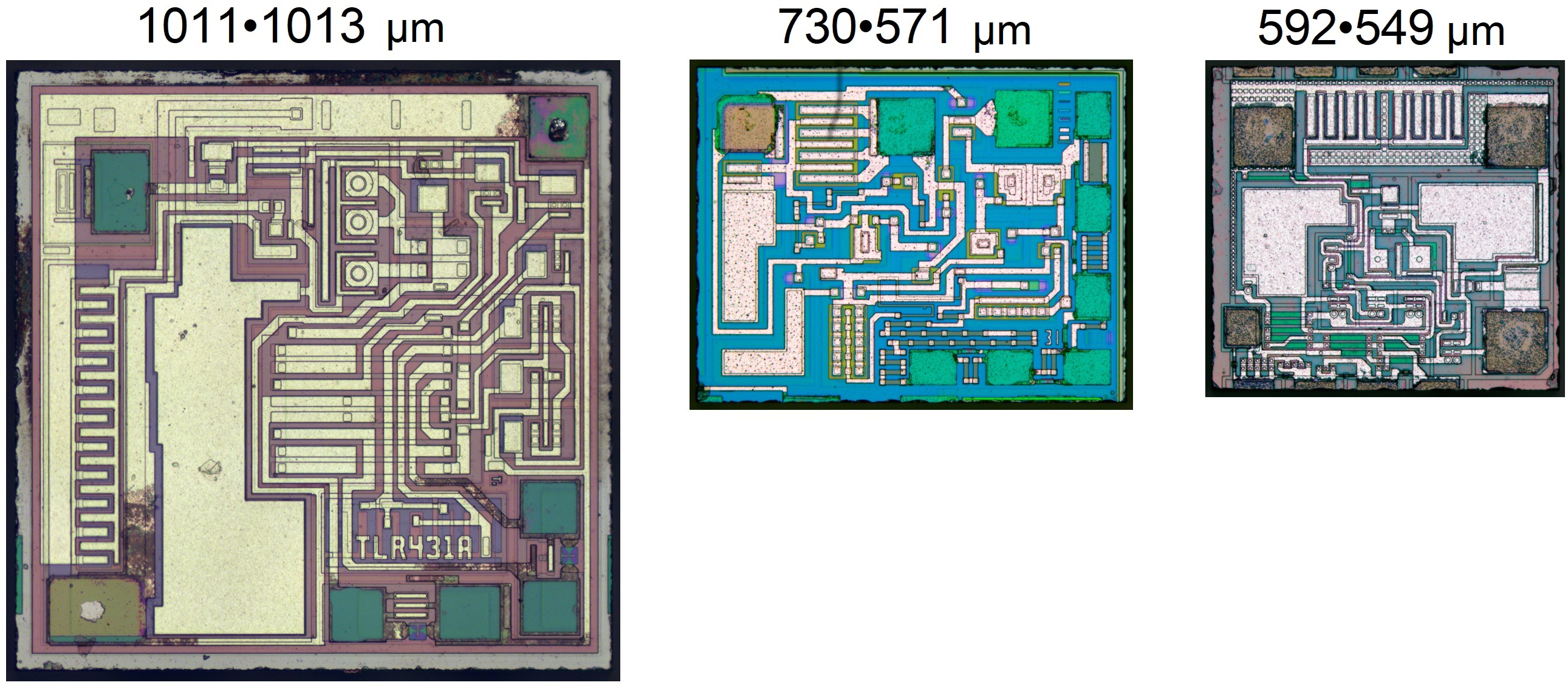 Microphotographs of different TL431 dies, in same scale. The largest, on the left, is original TI chip. Detailed description [1]